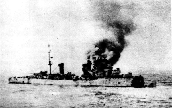 RN Bartolomeo Colleoni sinking during the battle of Cape Spada. From Marina Militare web site